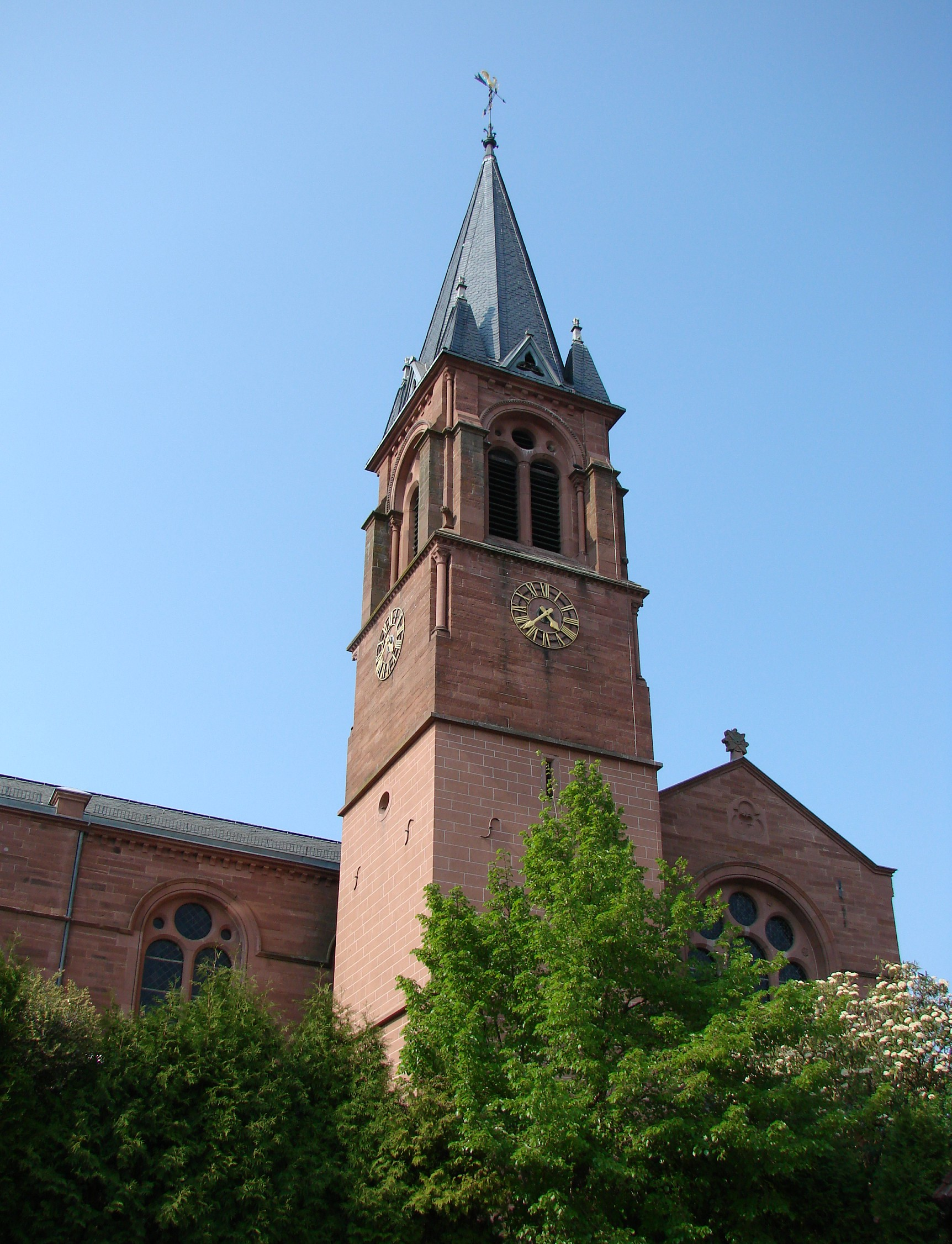 Wimsheim, St. Michaelis church of 1883